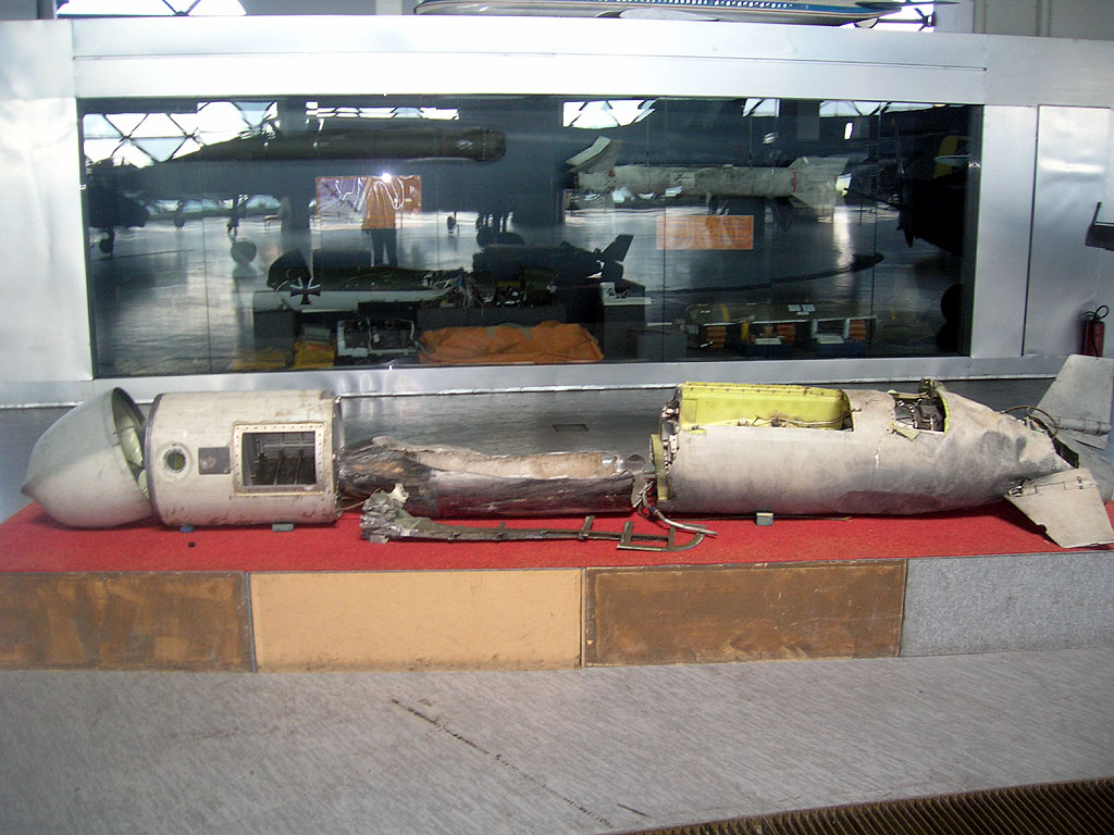 Tomahawk cruise missile remnants in Belgrade Aviation Museum. Author of the picture is user Marko M.